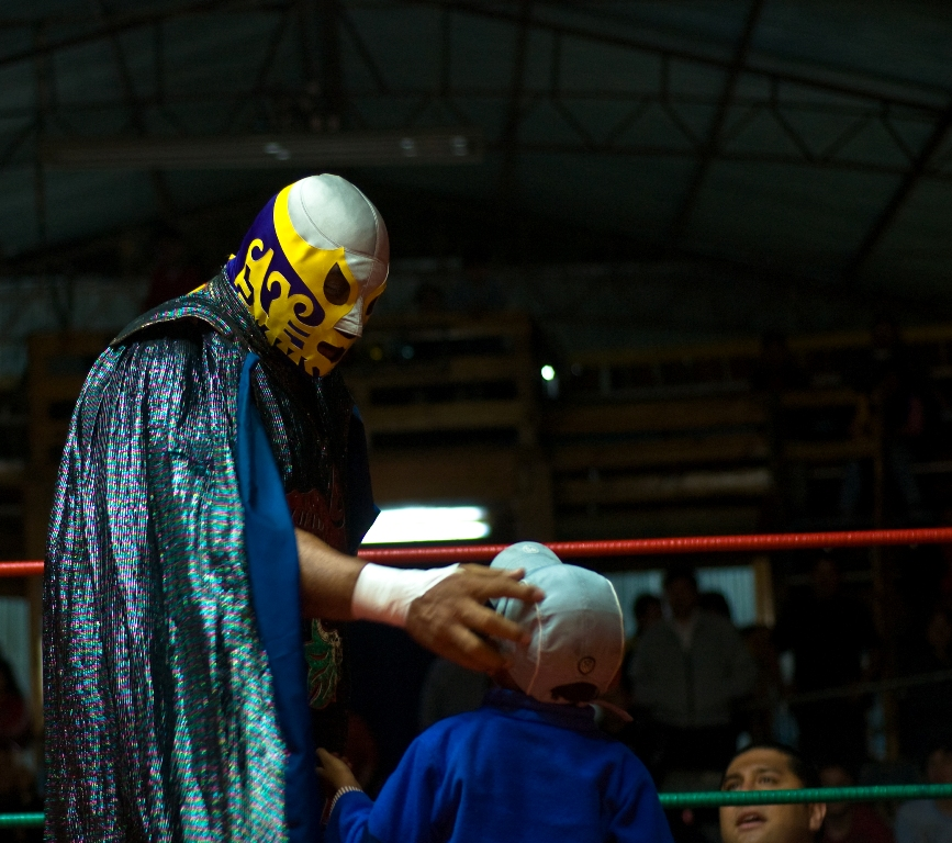 Mexican Luchador El Canek, lucha libre